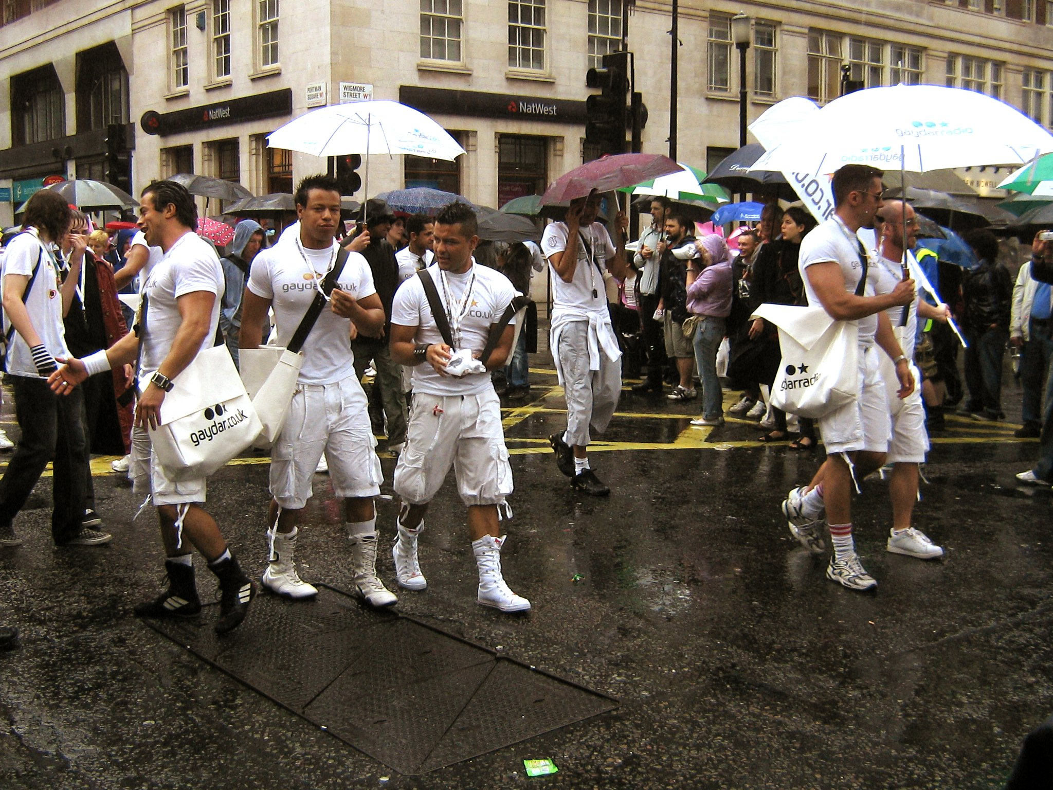 London Pride 2007 - advertismen men with nice umbrellas